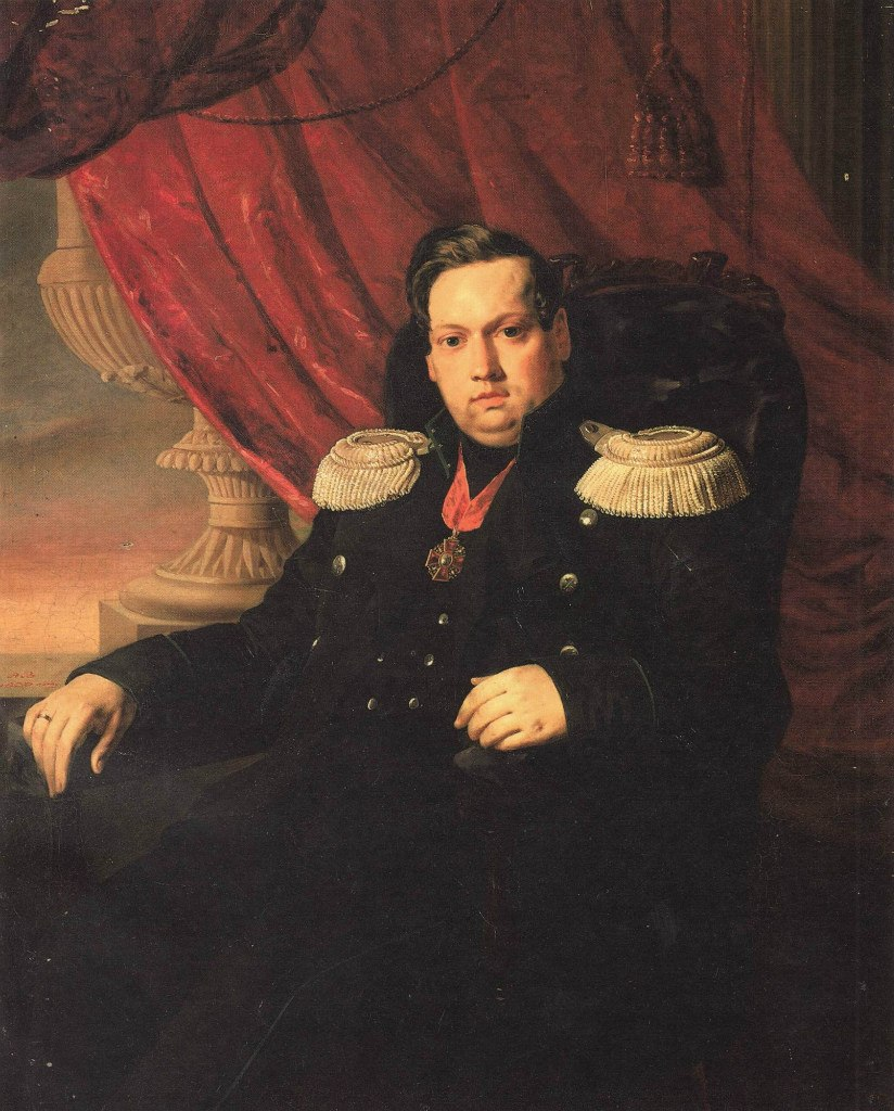 Vasilyev Nikolay Alexandrovich